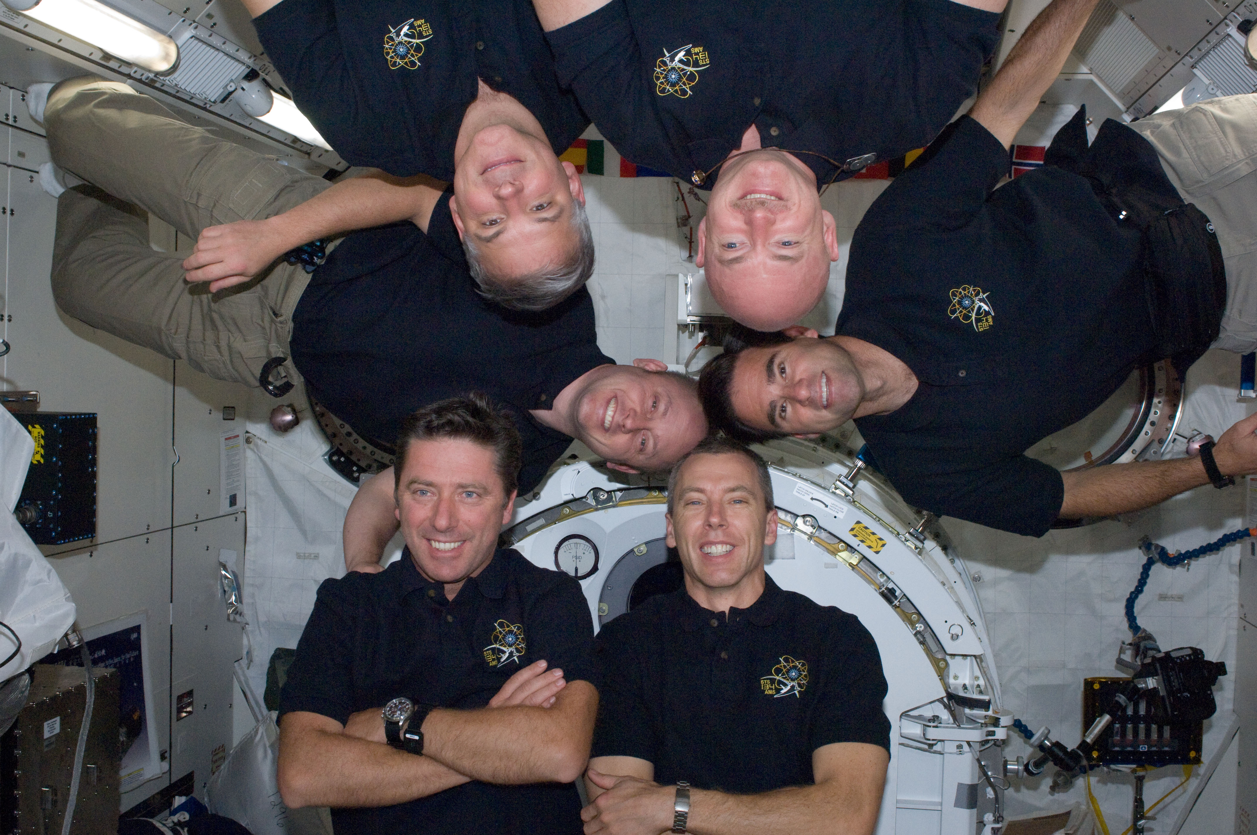 The six member crew for space shuttle Endeavour's final mission poses for an STS-134 in-flight crew portrait in the Japan Aerospace Exploration Agency's Kibo lab on the International Space Station. NASA astronaut Scott Kelly Mark Kelly is near Kibo's ceiling in upper right. Clockwise from the commander are NASA astronauts Greg Chamitoff and Andrew Feustel, European Space Agency astronaut Roberto Vittori, and NASA astronaut Michael Fincke, all mission specialists, and NASA astronaut Greg H. Johnson, pilot.